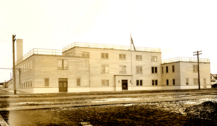 Nome, Alaska United States Post Office and Court House (1938) Completed in 1938. Supervising Architect: Louis A. Simon The U.S. District Court for the District of Alaska met here until 1958. Now privately owned.